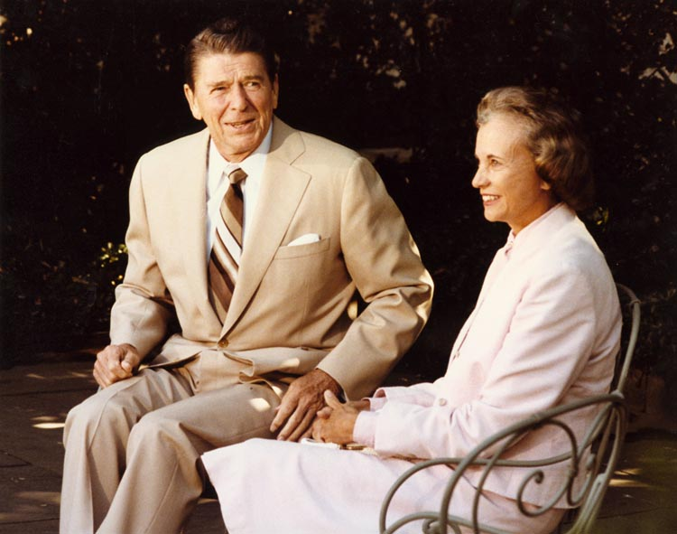 President Reagan and his Supreme Court Justice nominee Sandra Day O'Connor at the White House.